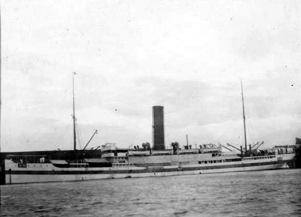 Hospital ship Grantala